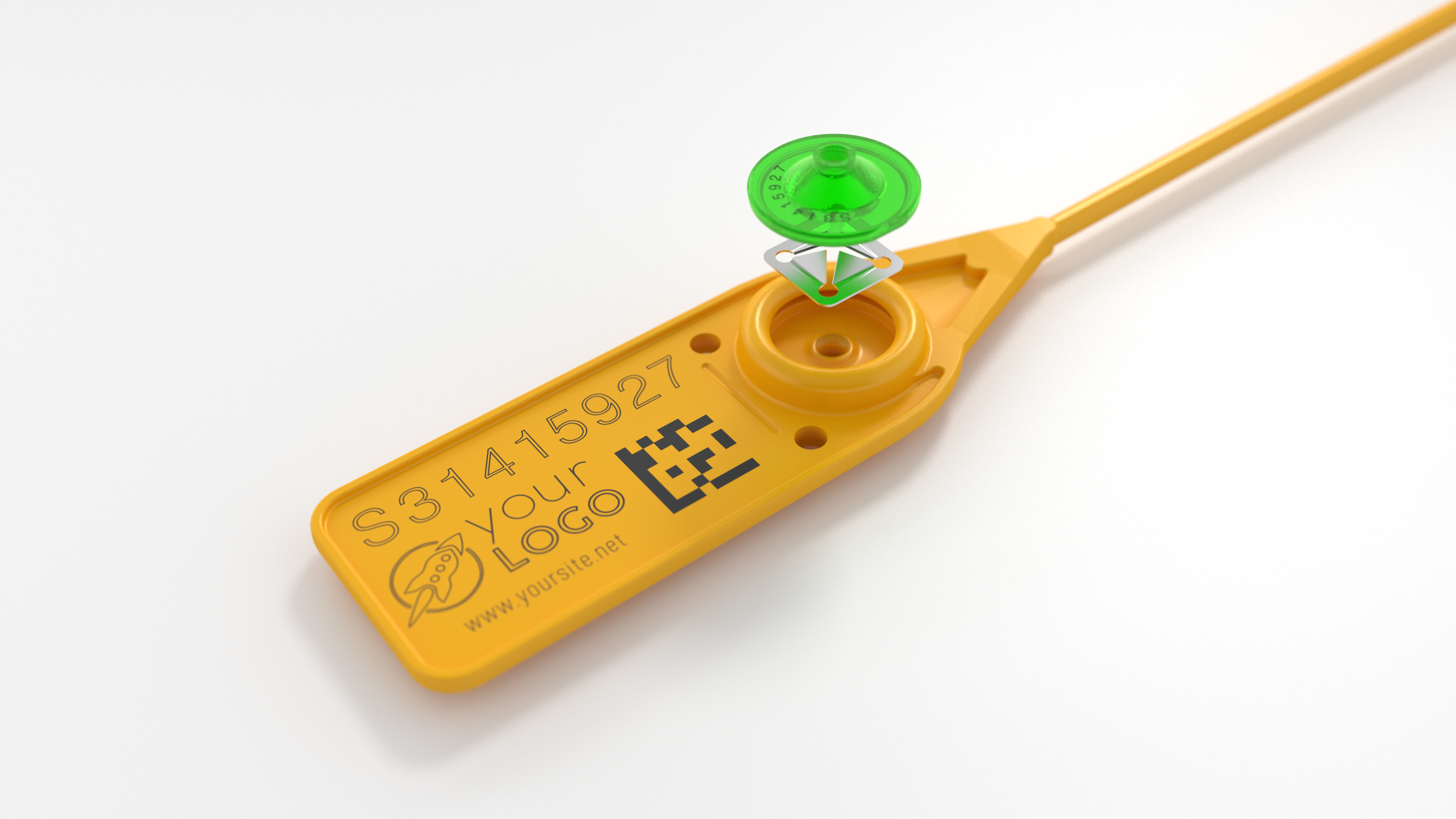 Pull-up seal